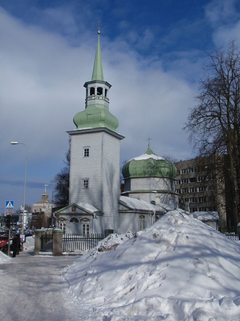 Our Lady of Kazan church on Liivalaia street, Tallinn. Built in 1721.